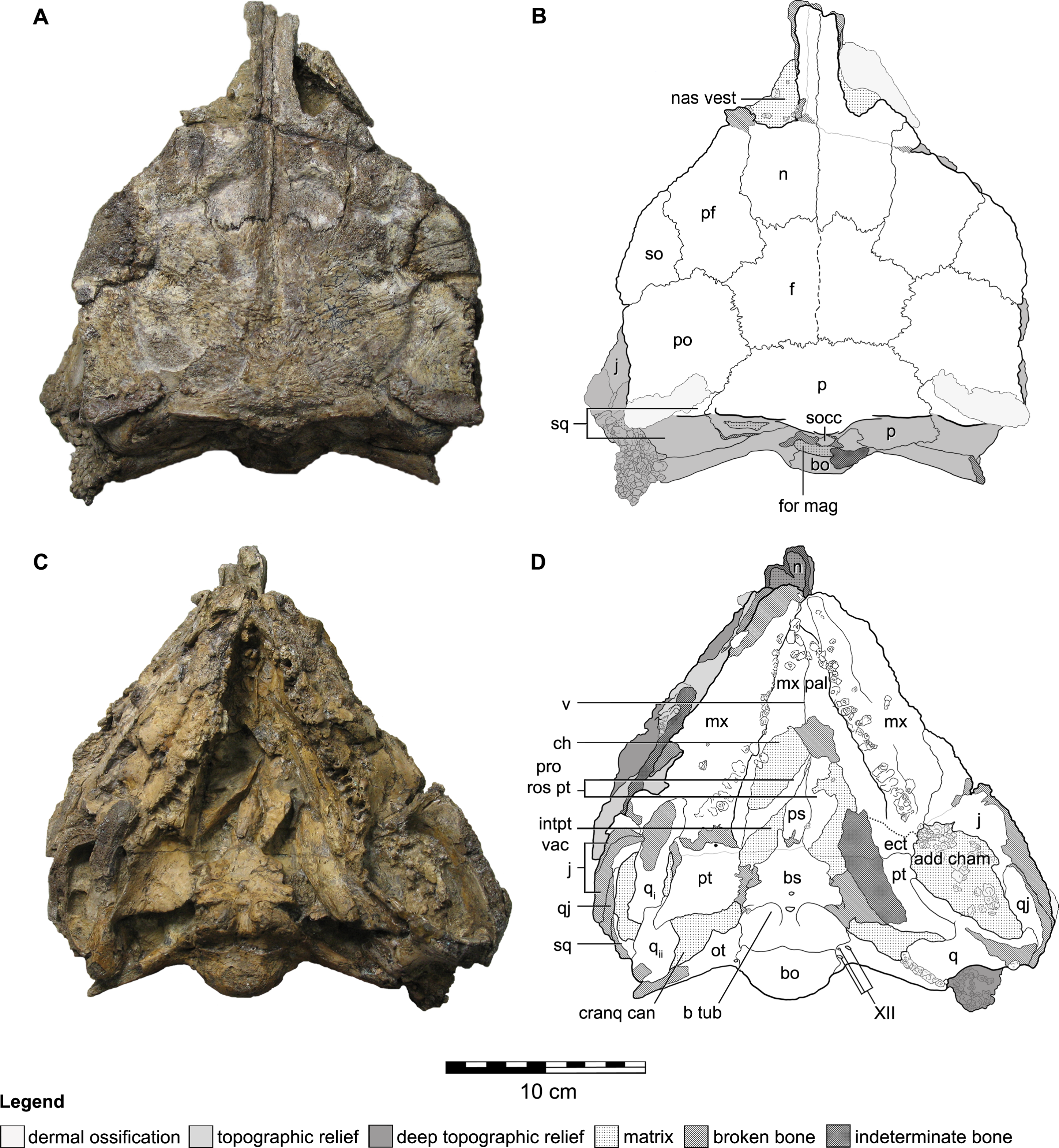 Cranial osteology of Kunbarrasaurus ieversi gen. et sp. nov. (formerly Minmi sp.) (QM F18101), with schematic version in dorsal (A–B) and ventral (C–D) aspects. Abbreviations: add cham, adductor chamber; bo, basioccipital; bs, basisphenoid; cranq can, cranioquadrate canal; ch, choanae; ect, ectopterygoid; f, frontal; fen pal, palatal fenestra; for mag, foramen magnum; intpt vac, interpterygoidal vacuity; j, jugal; mx, maxilla; mx pal, maxillary palate; n, nasal; nas vest, nasal vestibule; ot, otoccipital; p, parietal; pf, prefrontal; po, postorbital; pro rost pt, rostral process of the pterygoid; ps, parasphenoid; pt, pterygoid; q, quadrate (parts i and ii); qj, quadratojugal; so, supraorbital; socc, supraoccipital; sq, squamosal; v, vomer; XII, hypoglossal nerve. Legend: dotted line, partially fused suture; light grey, dermal ossifications; grey, topographic relief; dark grey, deep topographic relief; slanted lines, broken surfaces; dots, matrix; hatching, fragmentary bone material. Scale bar equals 10 cm.